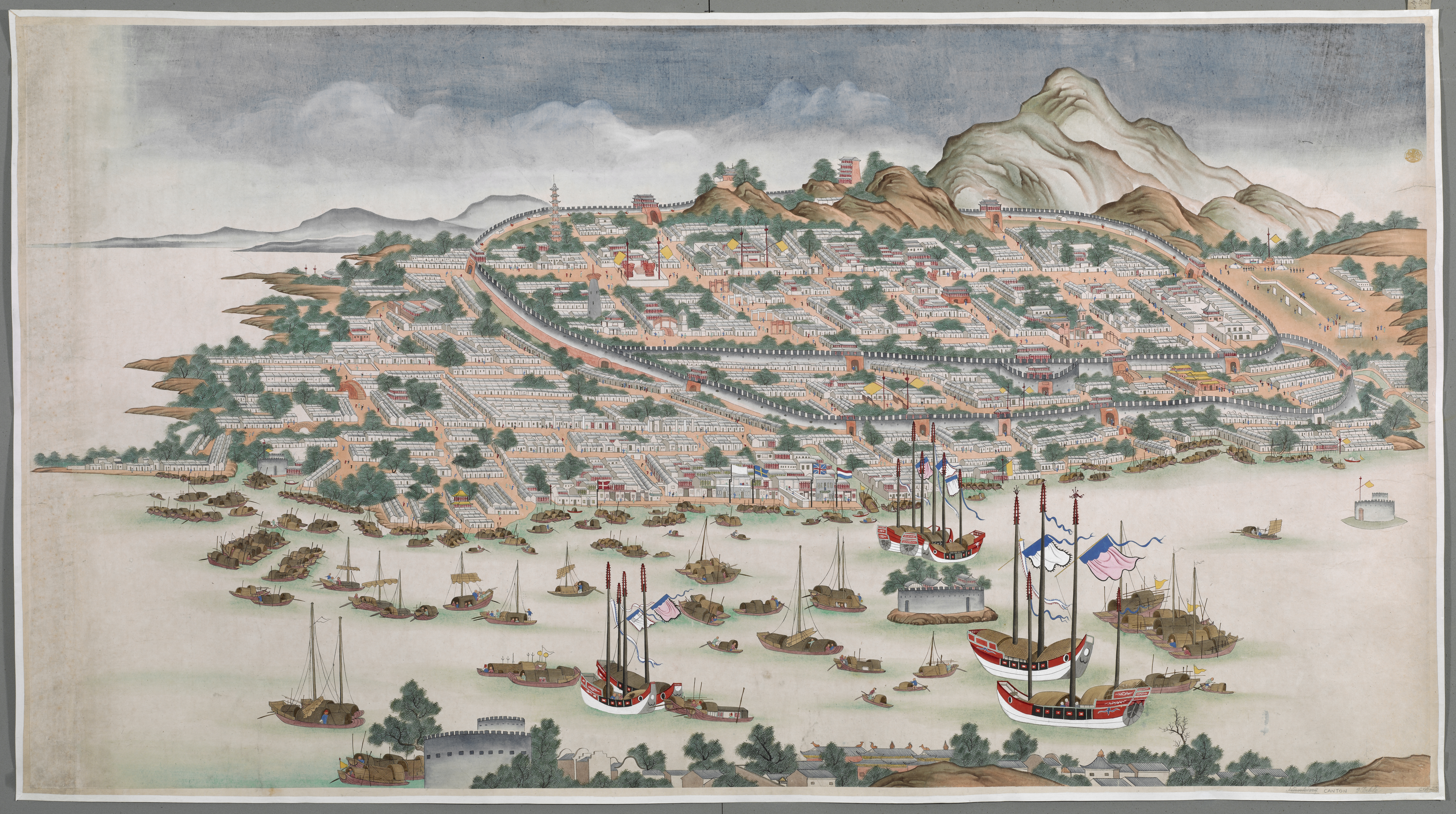 View of Canton (Guangzhou) c.1760-70. This bird's-eye view of Canton (circa 1770) is an export painting designed with the European merchant in mind. The painting displays a melange of European and Chinese styles and depicts Canton in the third quarter of the 18th century. 粵語: 1770年左右歐洲畫師繪製嘅廣州城鳥瞰圖。